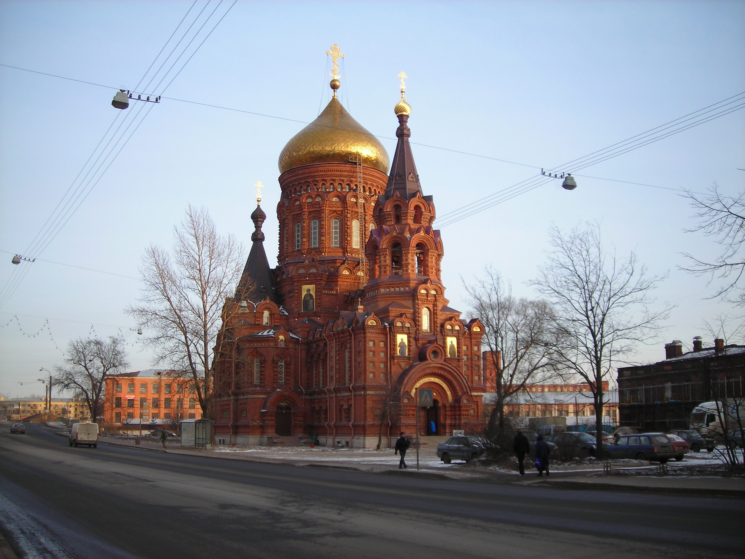 Epiphany church in Saint Petersburg